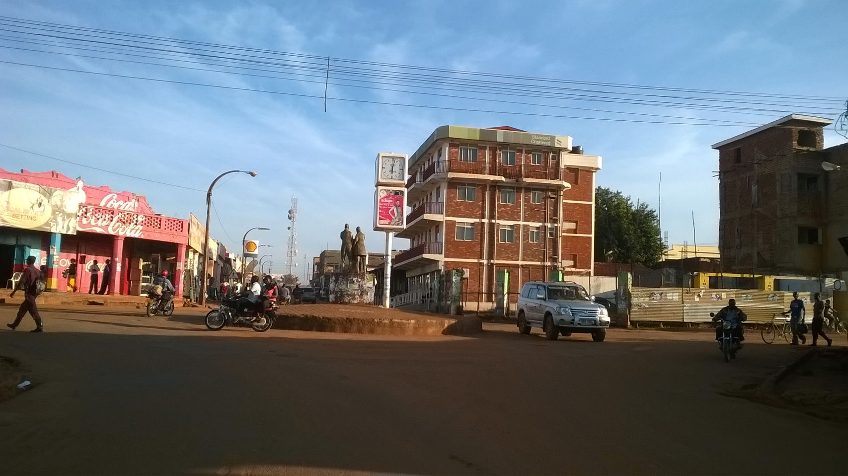 gulu town